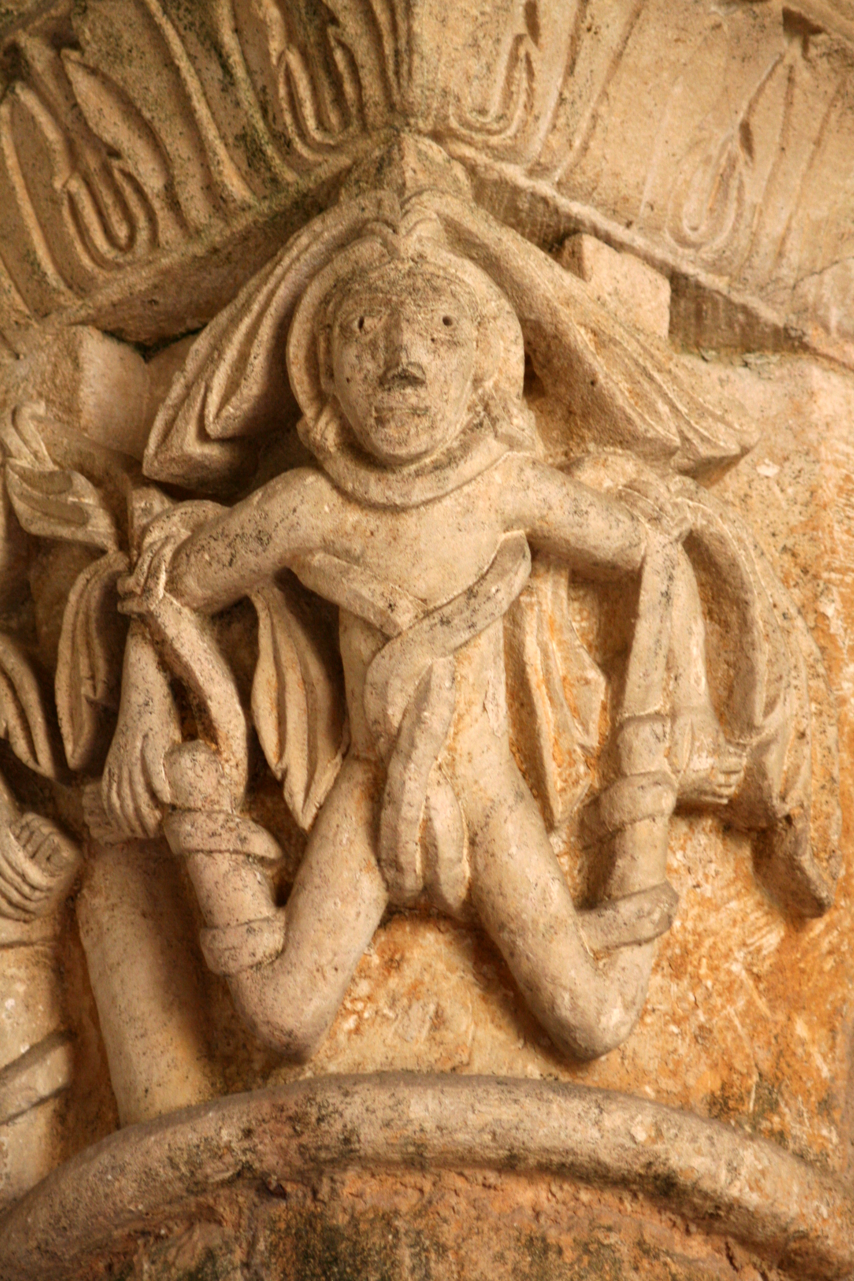 Grande-Sauve Abbey (33) Man Entangled in Lianas (Ulysses?) Opposite the Sirens, early 12th century date QS:P,+1150-00-00T00:00:00Z/7